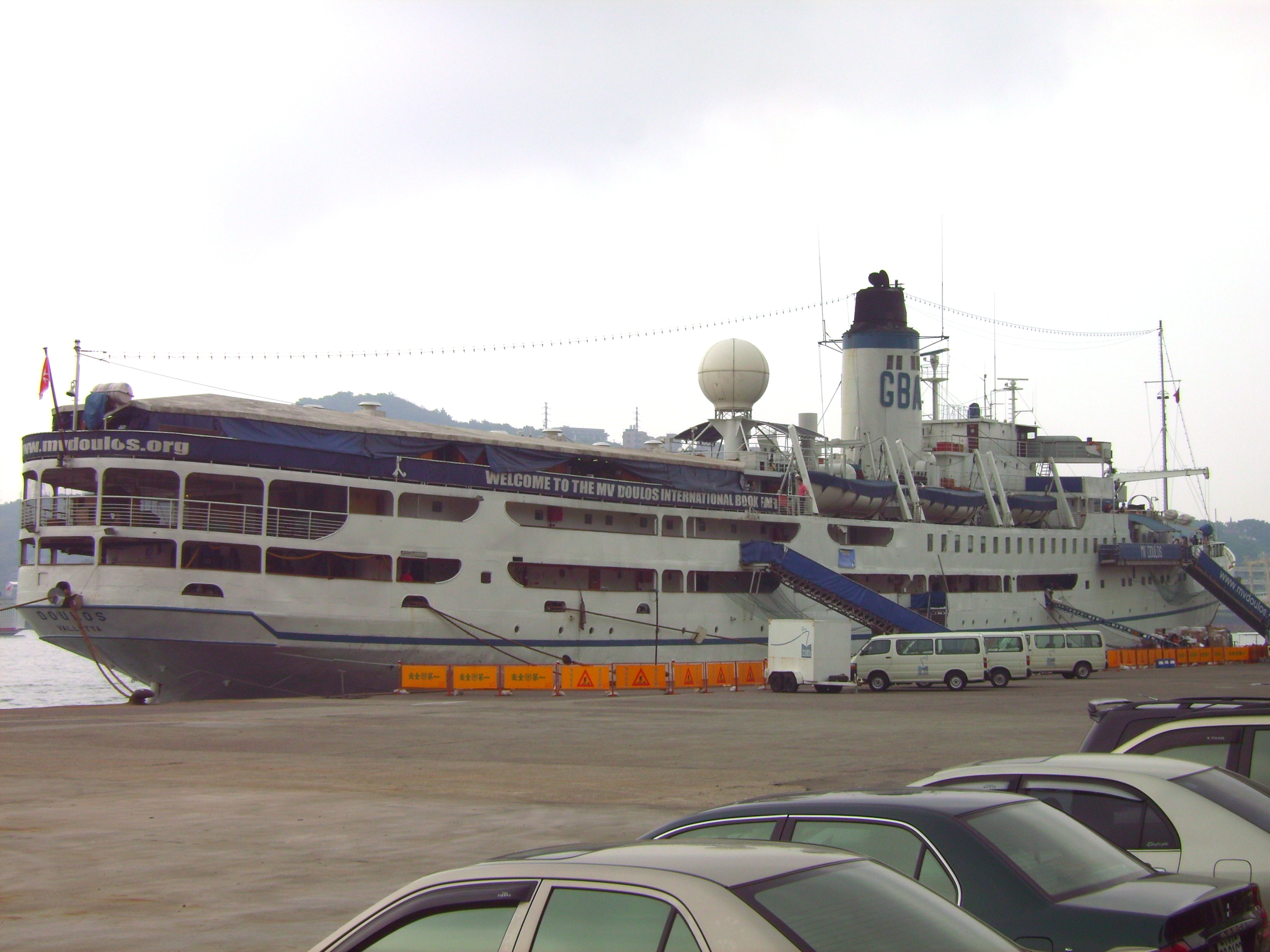 MV Doulos moored at Keelung, Taiwan.